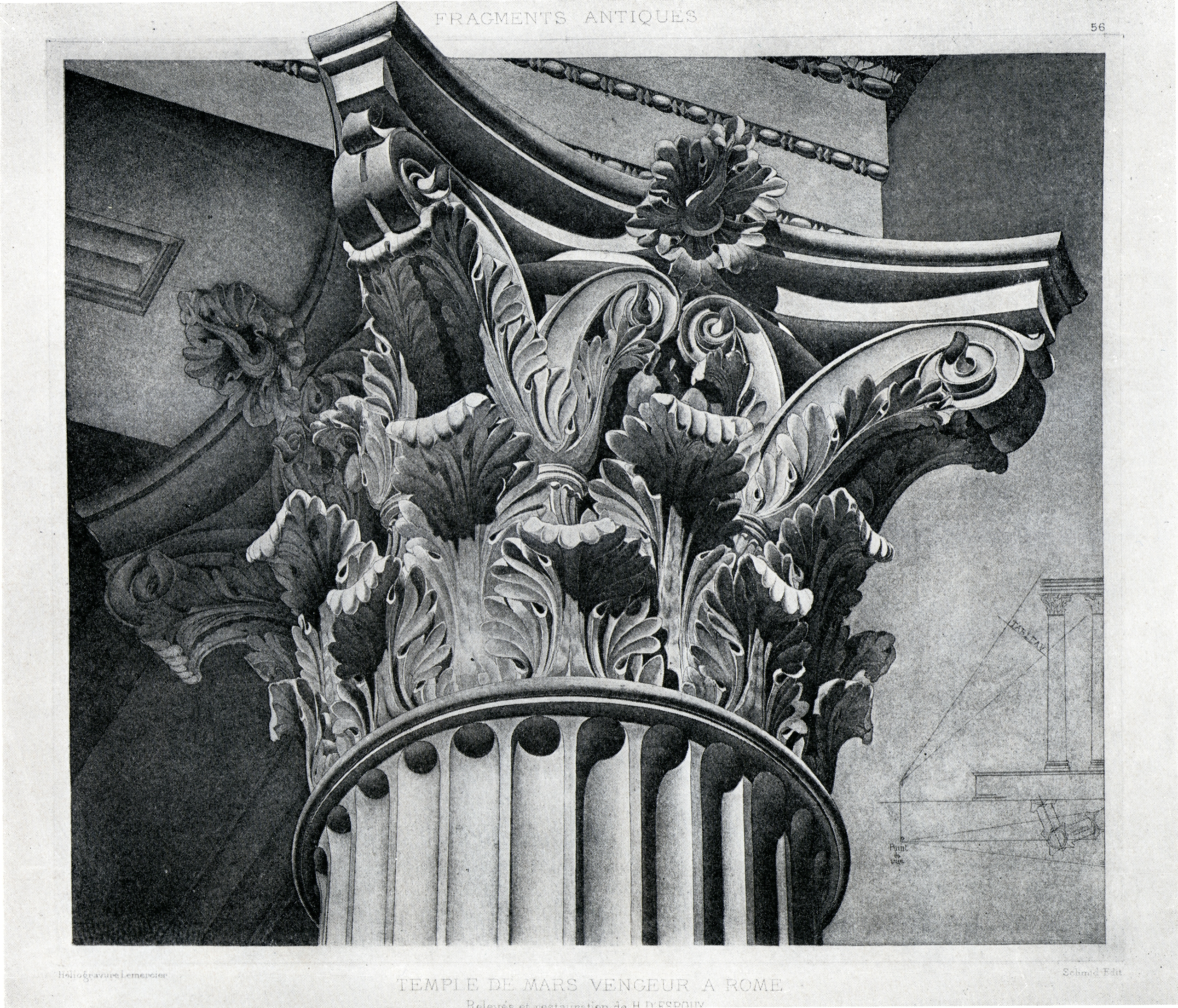 A Corinthian capital from the temple of Mars Ultor (Mars the Avenger) in Rome on an engraving by Hector-Jean-Baptiste d’Espouy (1854-1929). Scan from Fragments D’Architecture Antique, published by Hector-Jean-Baptiste d’Espouy (1854-1929).